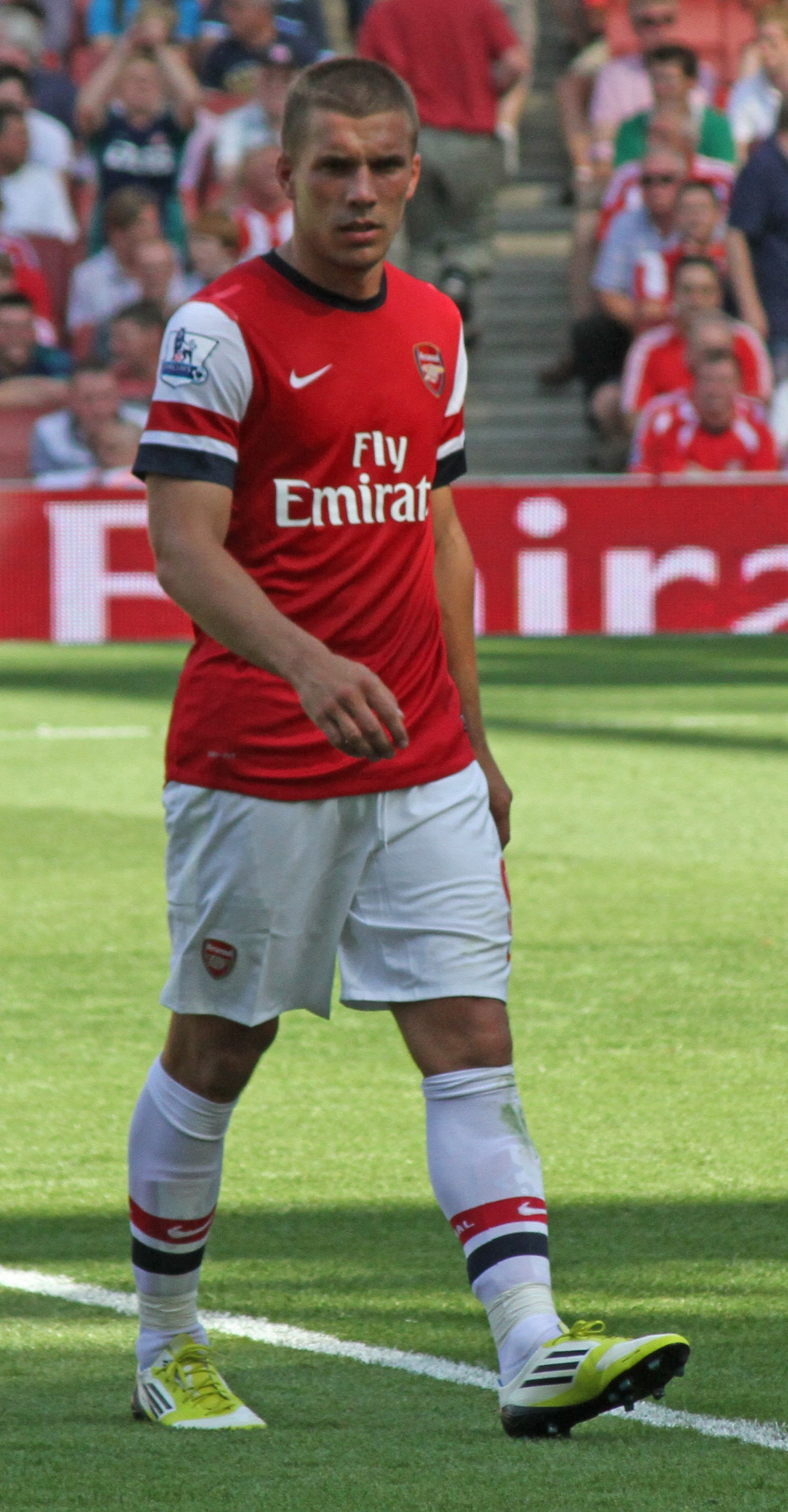 Lukas Podolski against Sunderland.